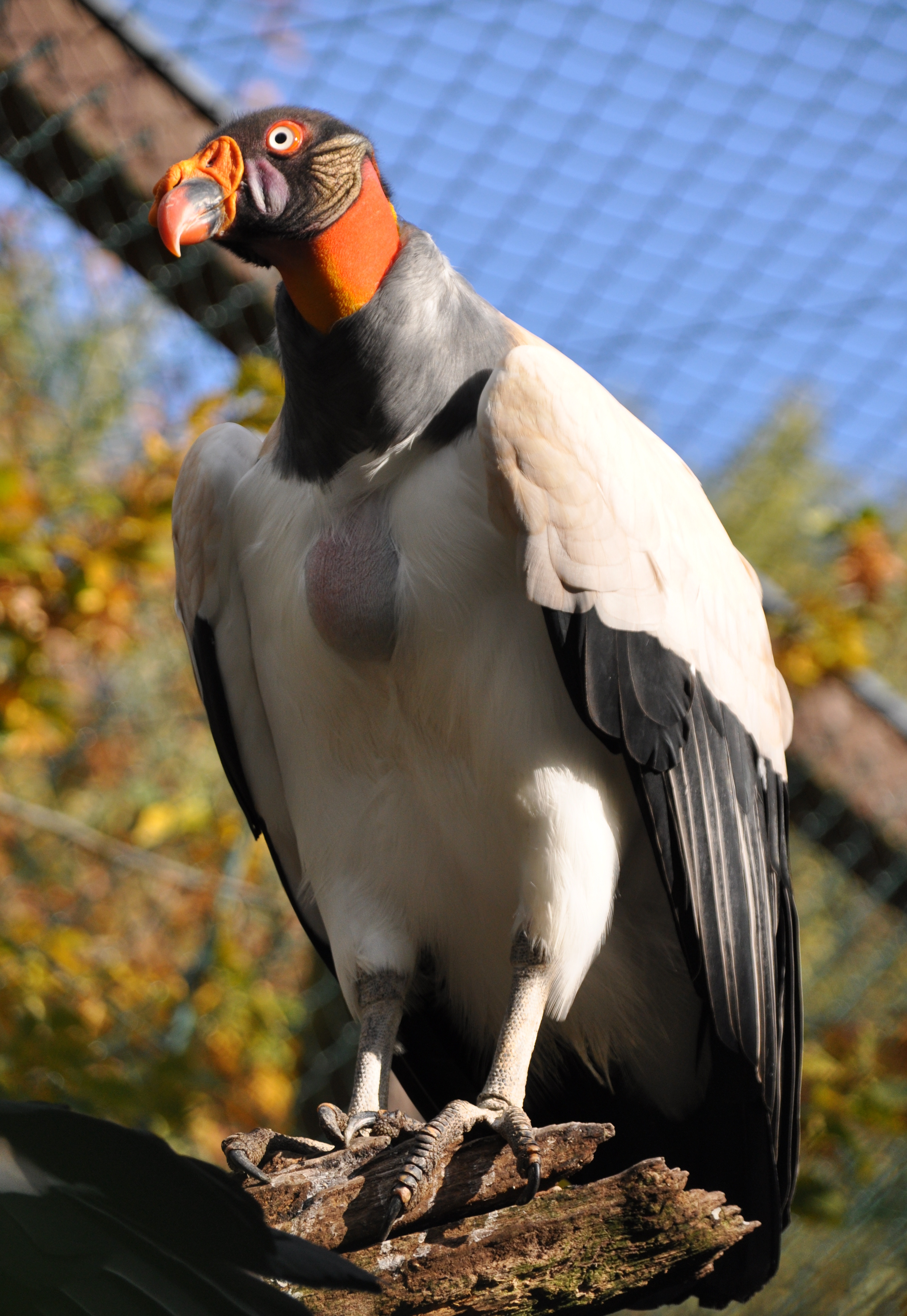 King Vulture (Sarcoramphus papa) in the Walsrode Bird Park, Germany.